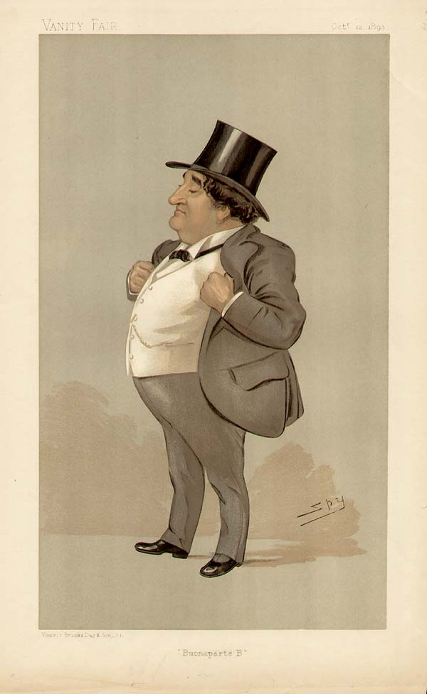 Statesmen No.621: Caricature of Mr Thomas Henry Bolton MP. Caption reads: "Buonaparte B"